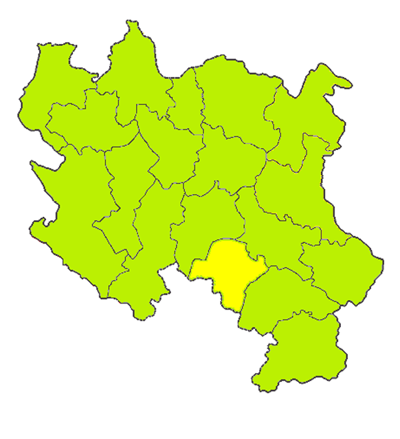 Map of Toplica